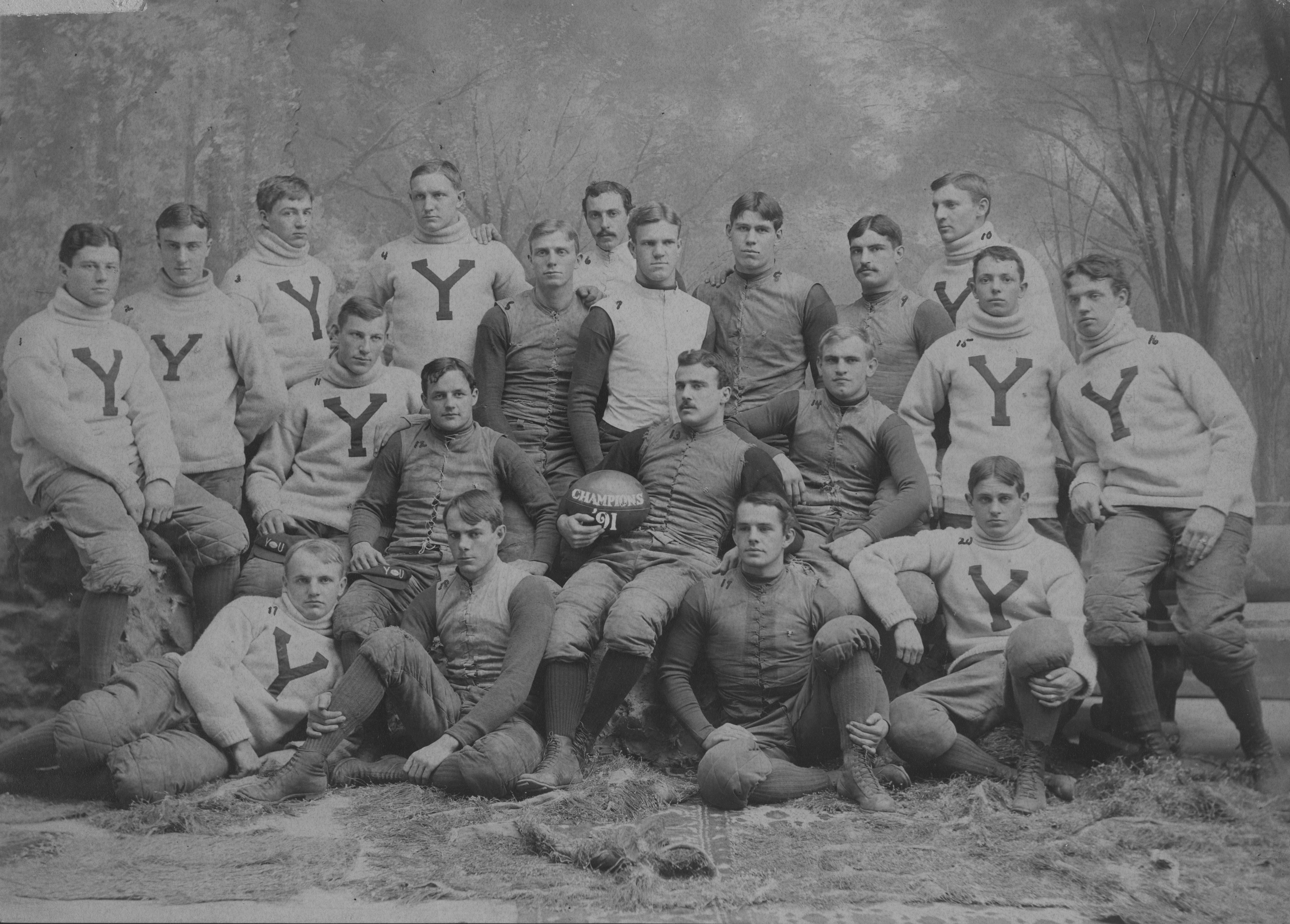 The victorious Yale team of 1891. Title: Outing Year: Authors: Subjects: Leisure Sports Travel Publisher: (New York : Outing Pub. Co.) Text Appearing Before Image: THE WISCONSIN TEAM OF 1901 WAS A CHAMPIONSHIP ORGANIZATION. Text Appearing After Image: '